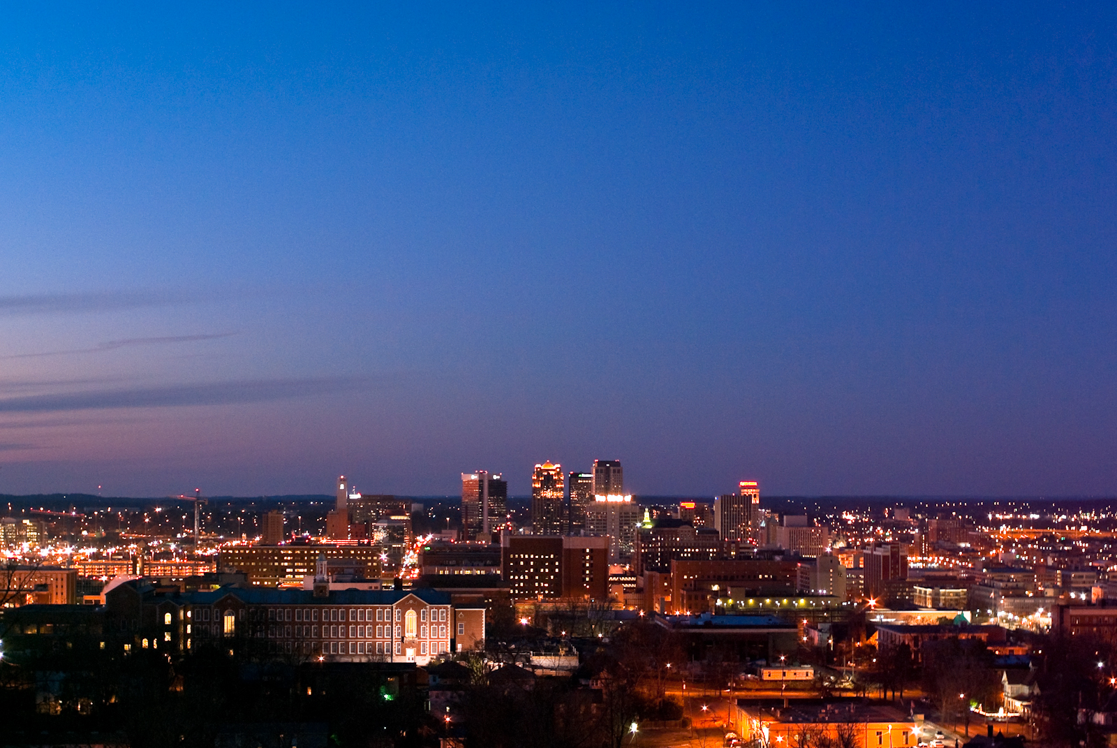 Birmingham, AL (the Magic City) at dusk Not sure why it has taken me 38 years to take this photo. And when I did I didn't even have my tripod. Go figure. bigged up on black